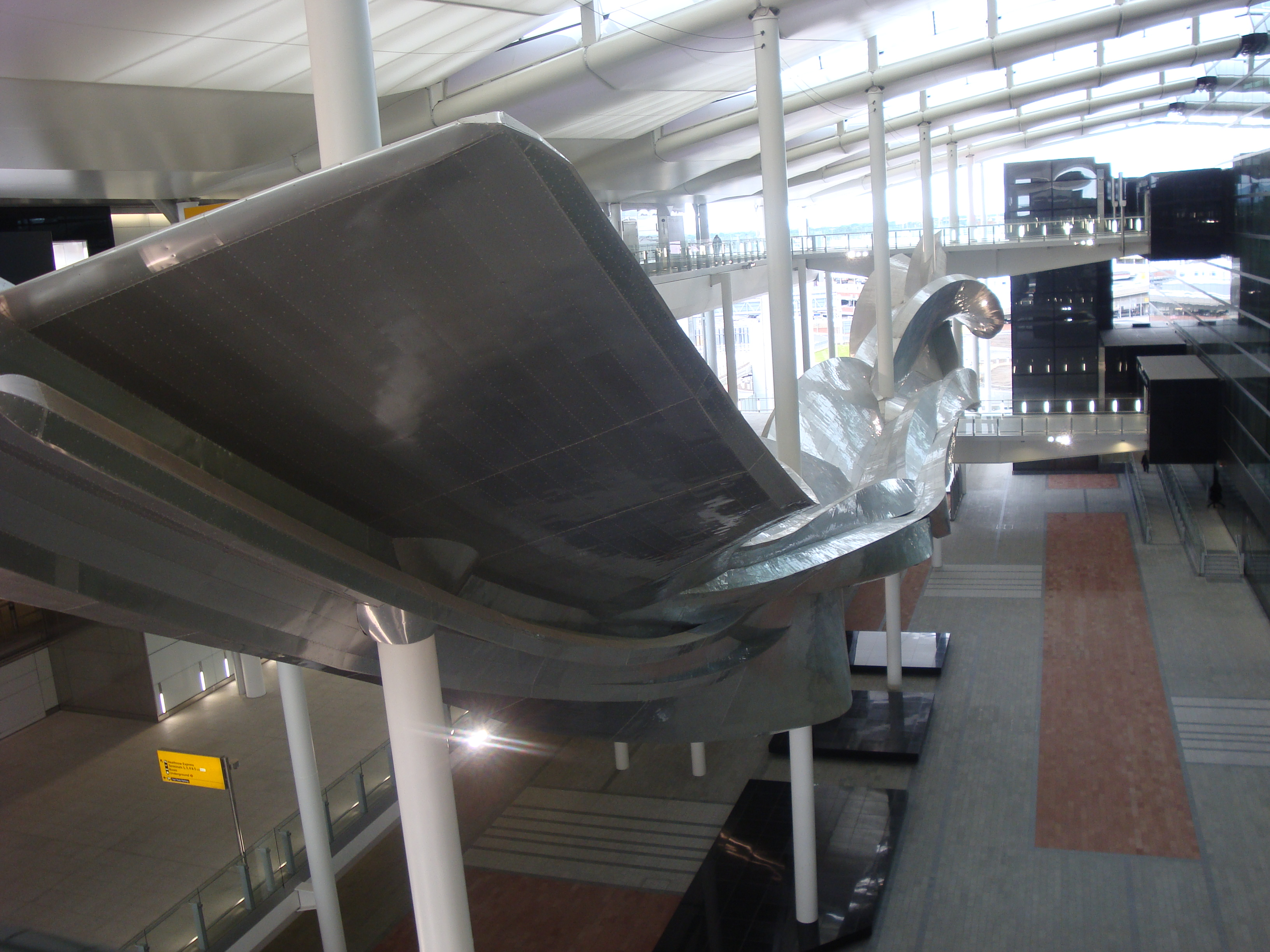 Slipstream (2014) by Richard Wilson, an 80-metre-long aluminium sculpture at London Heathrow Terminal 2 – The Queen's Terminal, London, England, UK.